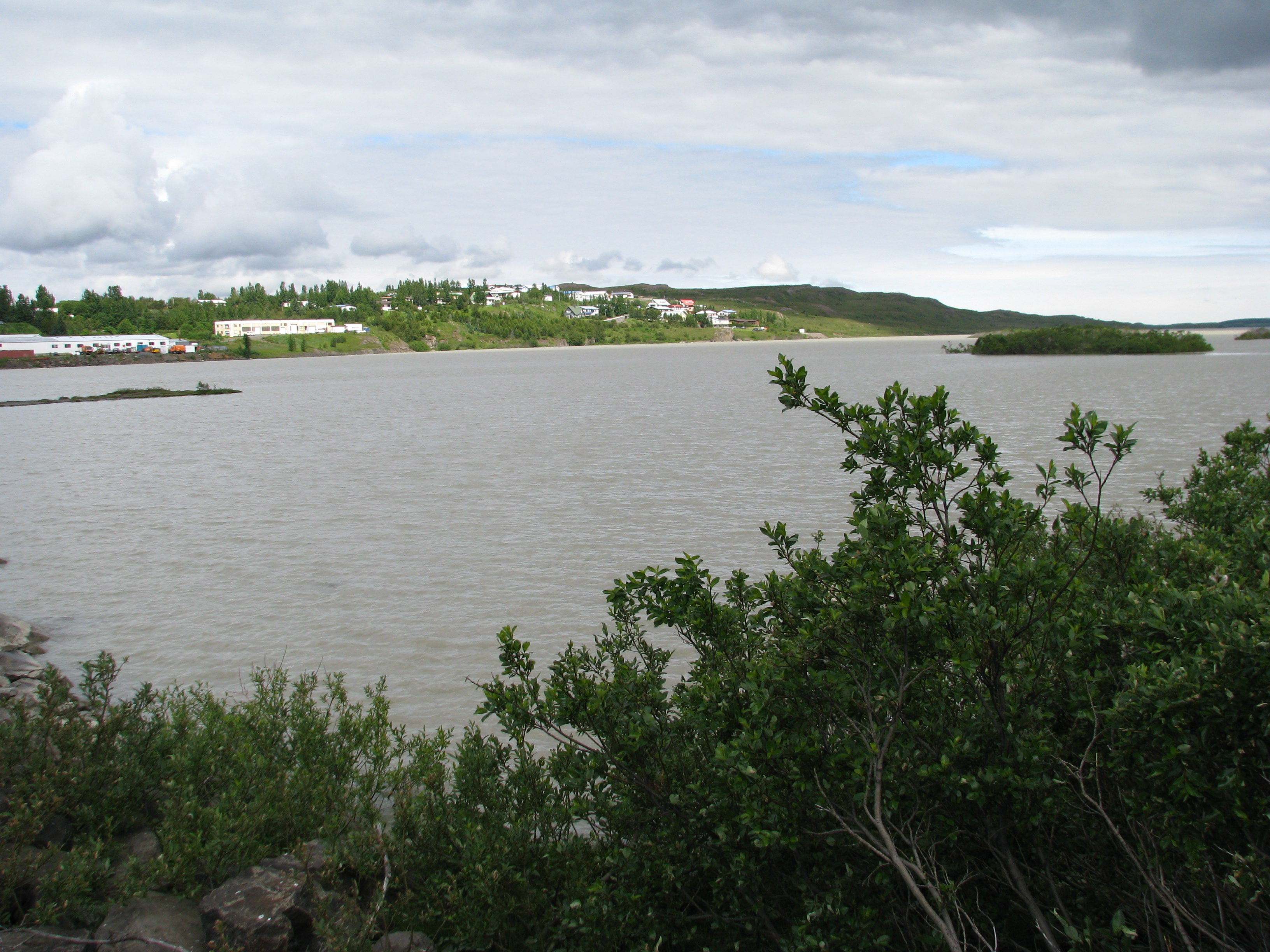 Fellabær, a town in Iceland.